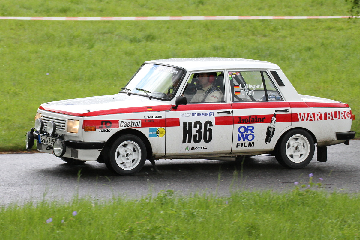 H36 Lars Wiegand - Tino Heß (DEU) - Wartburg 353 / group A / 1986